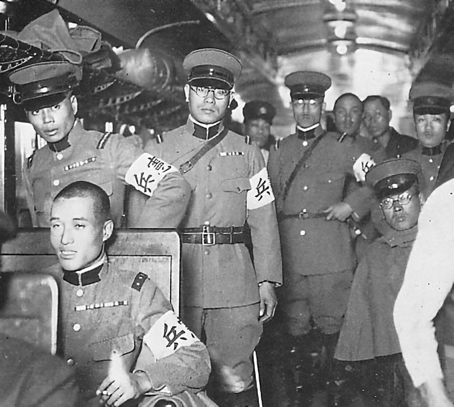 Kenpei (Imperial Japanese Army's Military policeman)NCOs